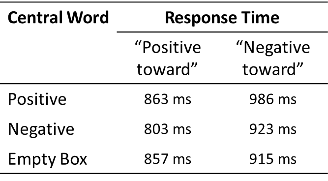 Table with response time data by condition from van Dantzig et al. (2009).